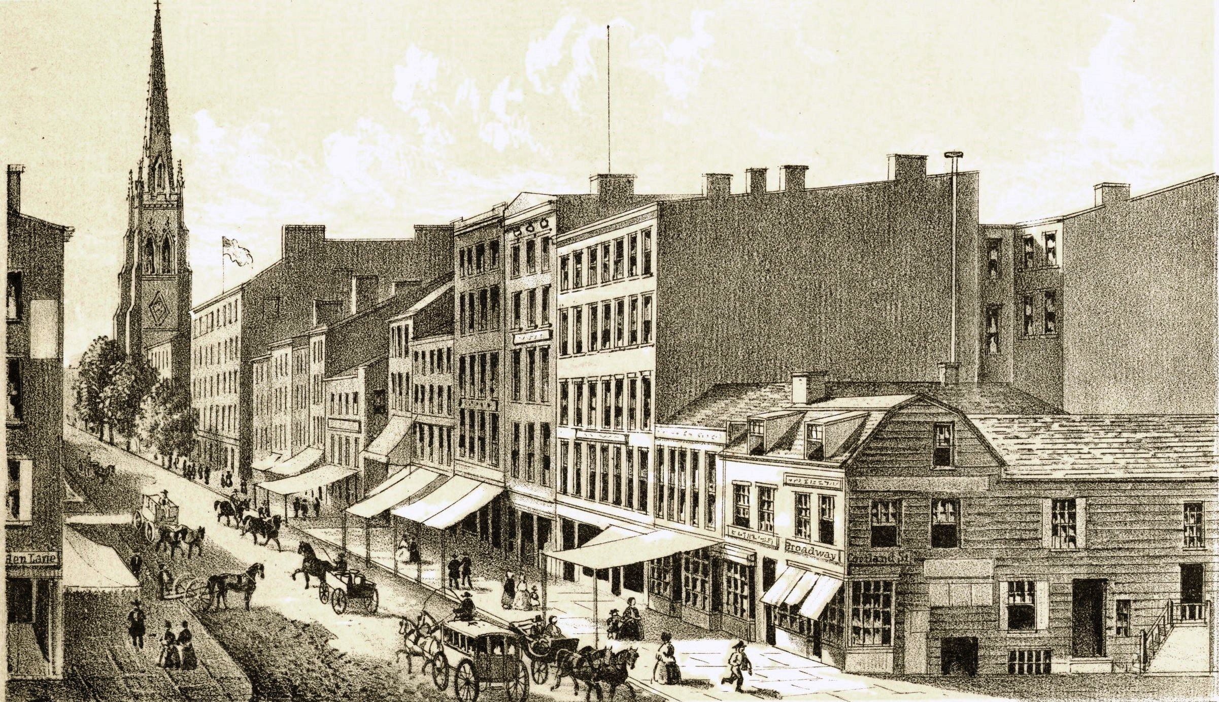 Volume numbers given here refer to the original volume numbers of the publication, not of Lossing's publication. Printmakers include P. Canot, G.R. Hall, H.B. Hall, George Hayward and W.S. Leney. Title from title page of extra-illustrated volume. EM6992